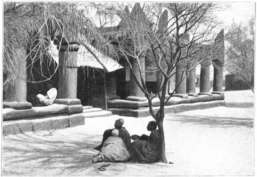 1906 photo of the courtyard of Sultan's palace Zinder L. Roserot de Melin In het gebied van het Tsadmeer met de expeditie Tilho De Aarde en haar volken, 1910 (Holland)